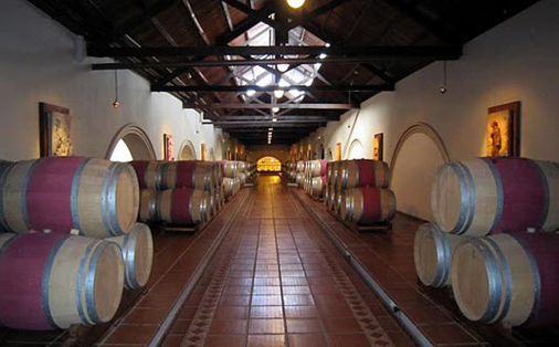 Bodega Luigi Bosca, Biodiversidad